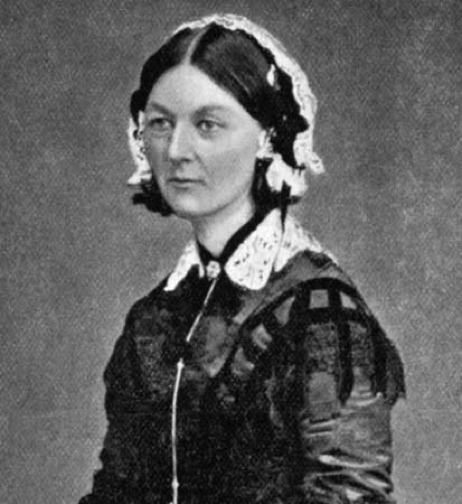 This is an image of Florence Nightingale in 1870